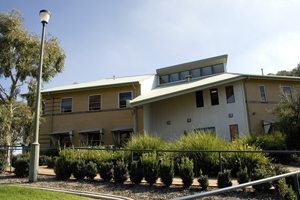 James Hagan Building,Faculty of Arts Office, Wagga Wagga Campus